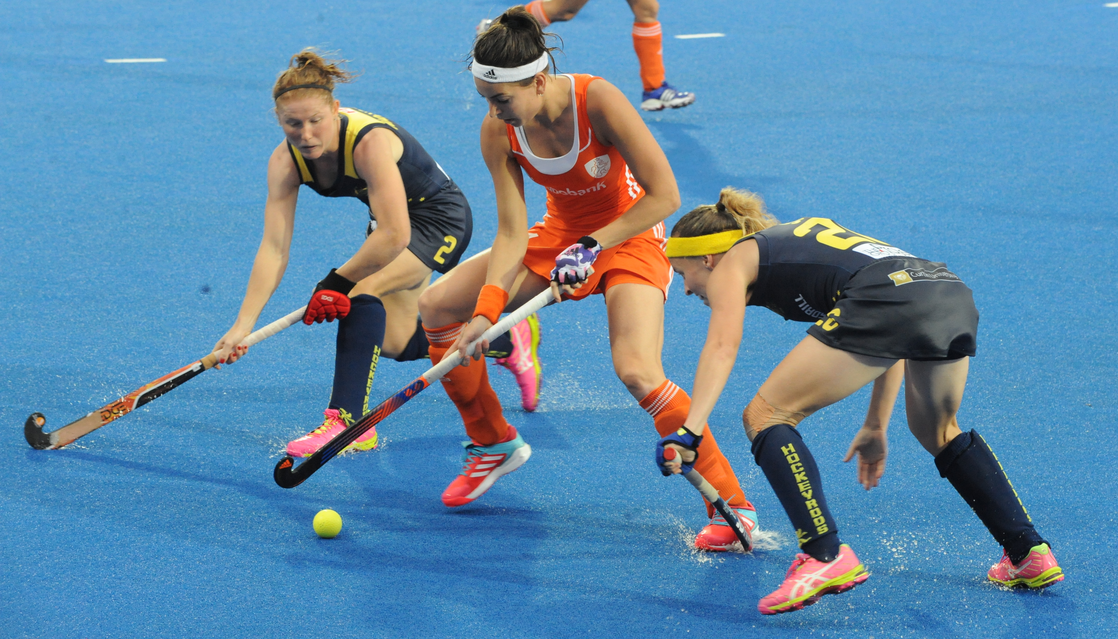 CT 2016: Australia v Netherlands